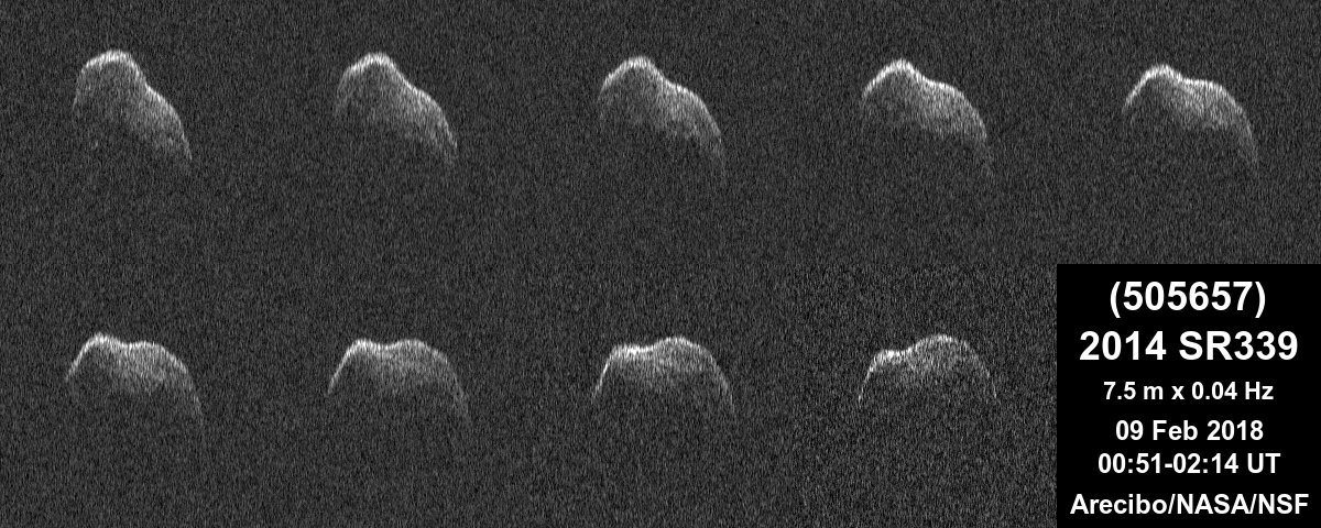 Arecibo observed near-Earth asteroid (505657) 2014 SR339 using its NASA-funded planetary radar system on February 9, 2018. Radar images reveal 2014 SR339 to have a lumpy, elongated shape at least 1.5 km long and a rotation consistent with the 8.7 hour period determined from optical lightcurves (B.D. Warner, MoreData!). At its closest approach on February 7, the asteroid was 0.054 AU, or about 21 times the Earth-Moon distance, away from Earth. 2014 SR339 was discovered on September 20, 2014 by the NEOWISE infrared spacecraft, which originally suggested its diameter was about 1 km.